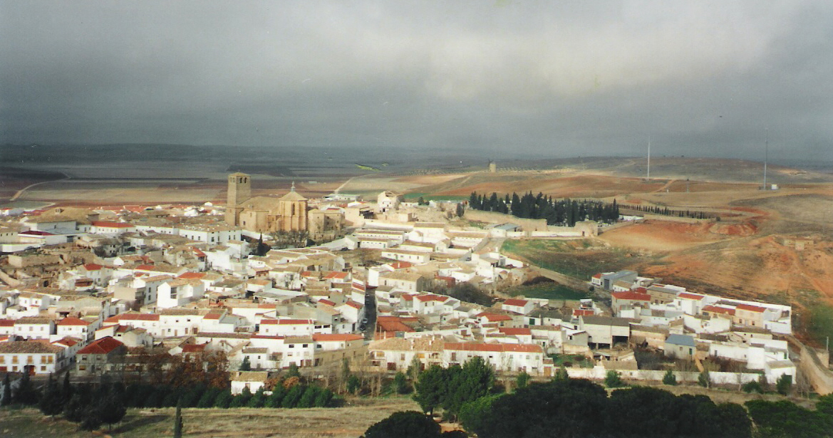 Belmonte from its castle.